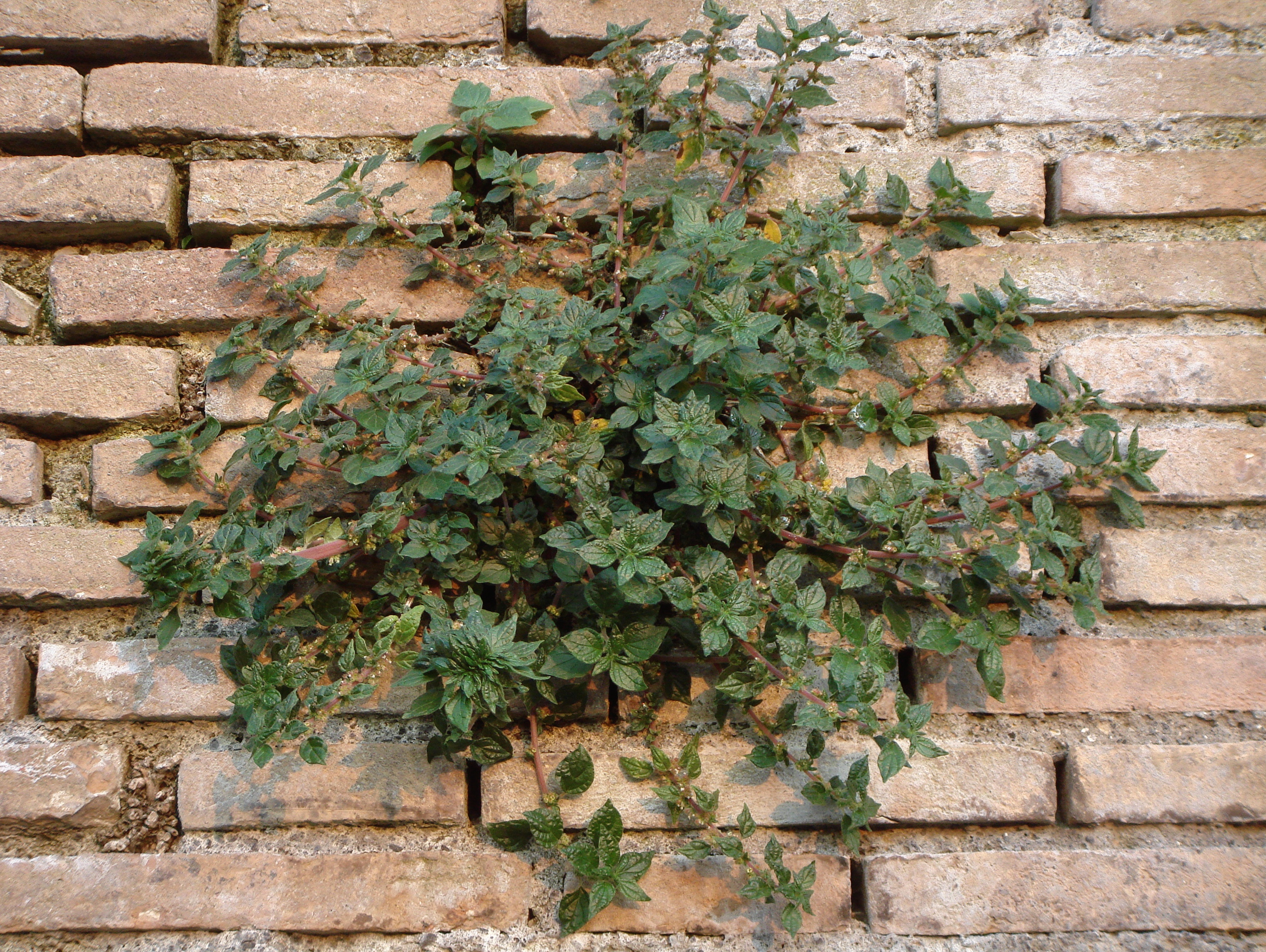 Parietaria_judaica habitus on brick wall (Bomarzo, Italy).